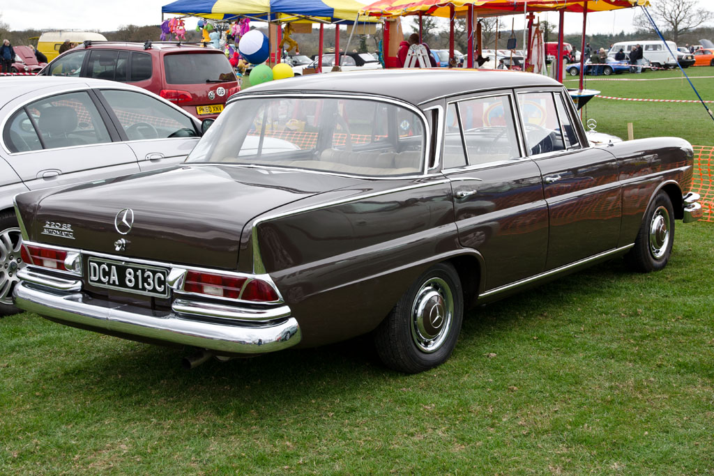 St Asaph Classic Car Show 21/04/2013